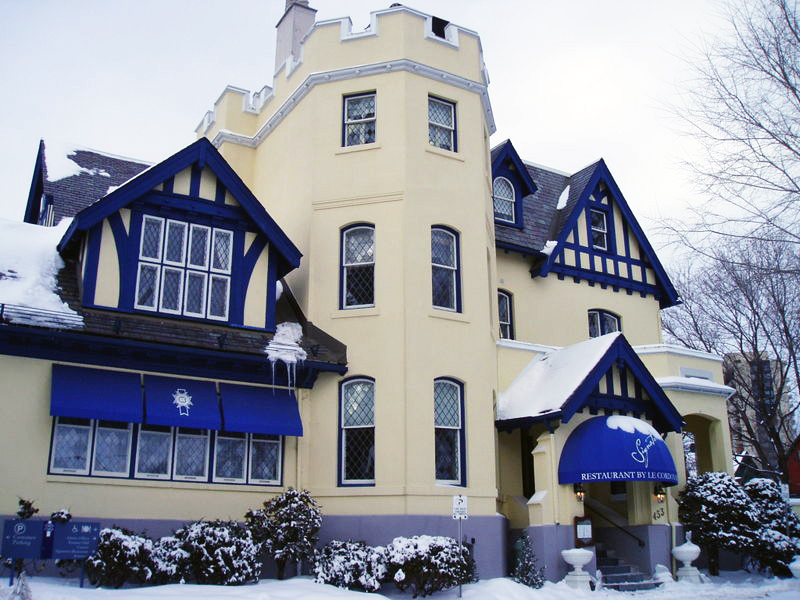 The Cordon Bleu school in Ottawa, Canada.